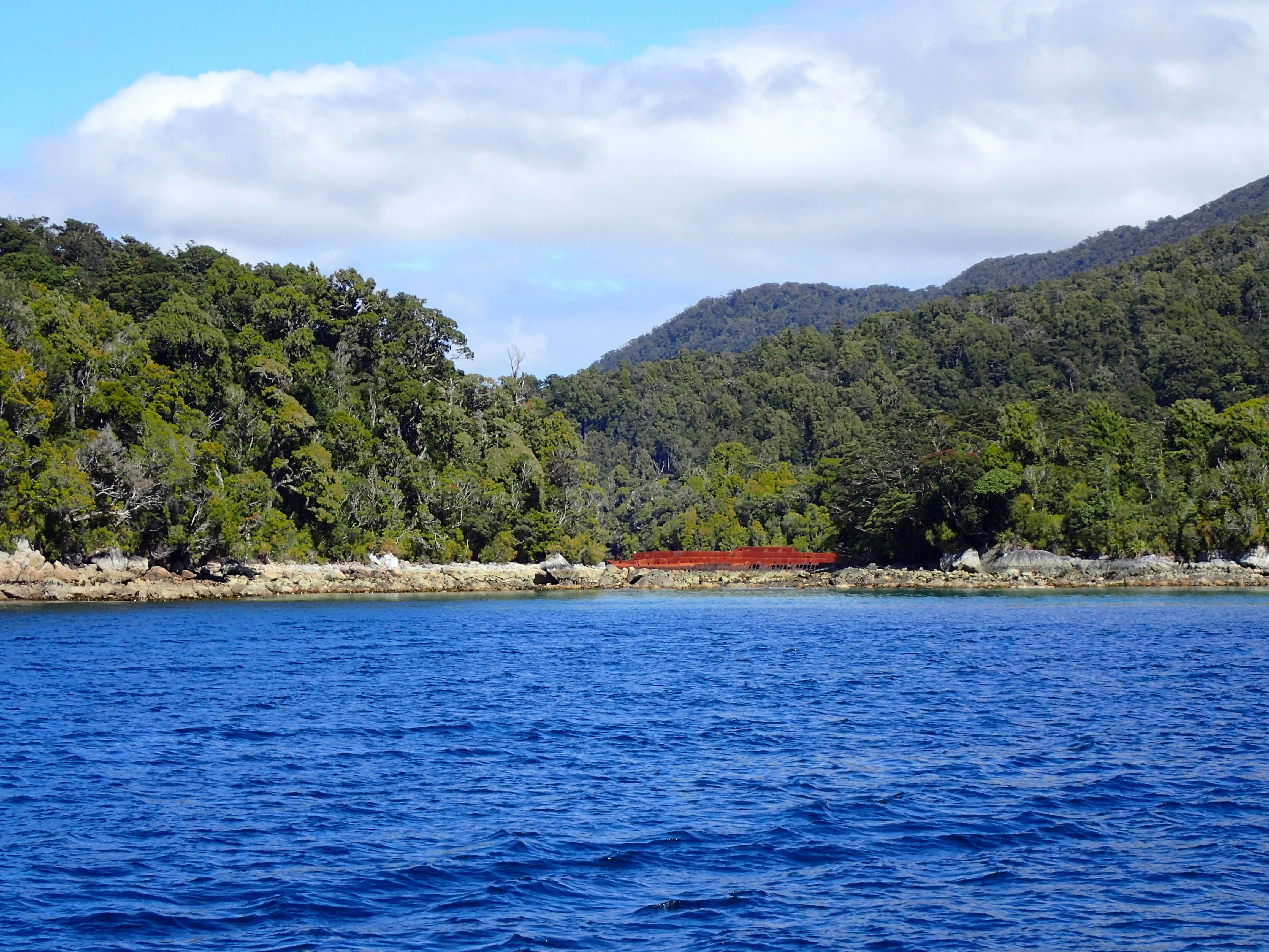 Resting place of GSS Stella, Northport, Chalky Inlet, Aotearoa / New Zealand.( Center of Image)